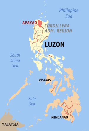 Map of the Philippines showing the location of Apayao